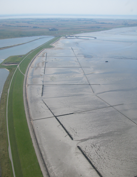 Groups of Groynes at the North Sea in front of Beltringharder Koog, North Frisia, Germany